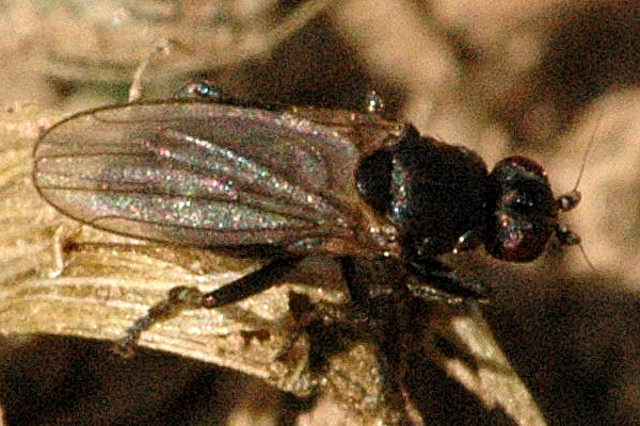 Spelobia clunipes from Commanster, Belgian High Ardennes .